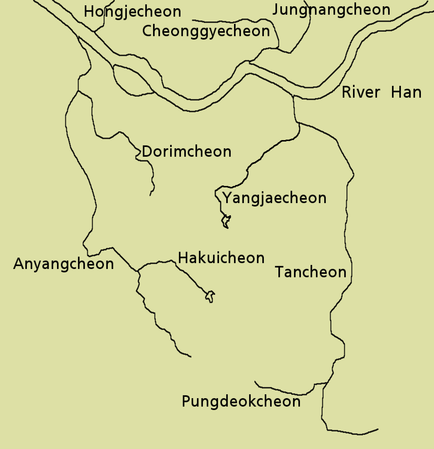 Map of tributaries of the Han in Seoul (southern)